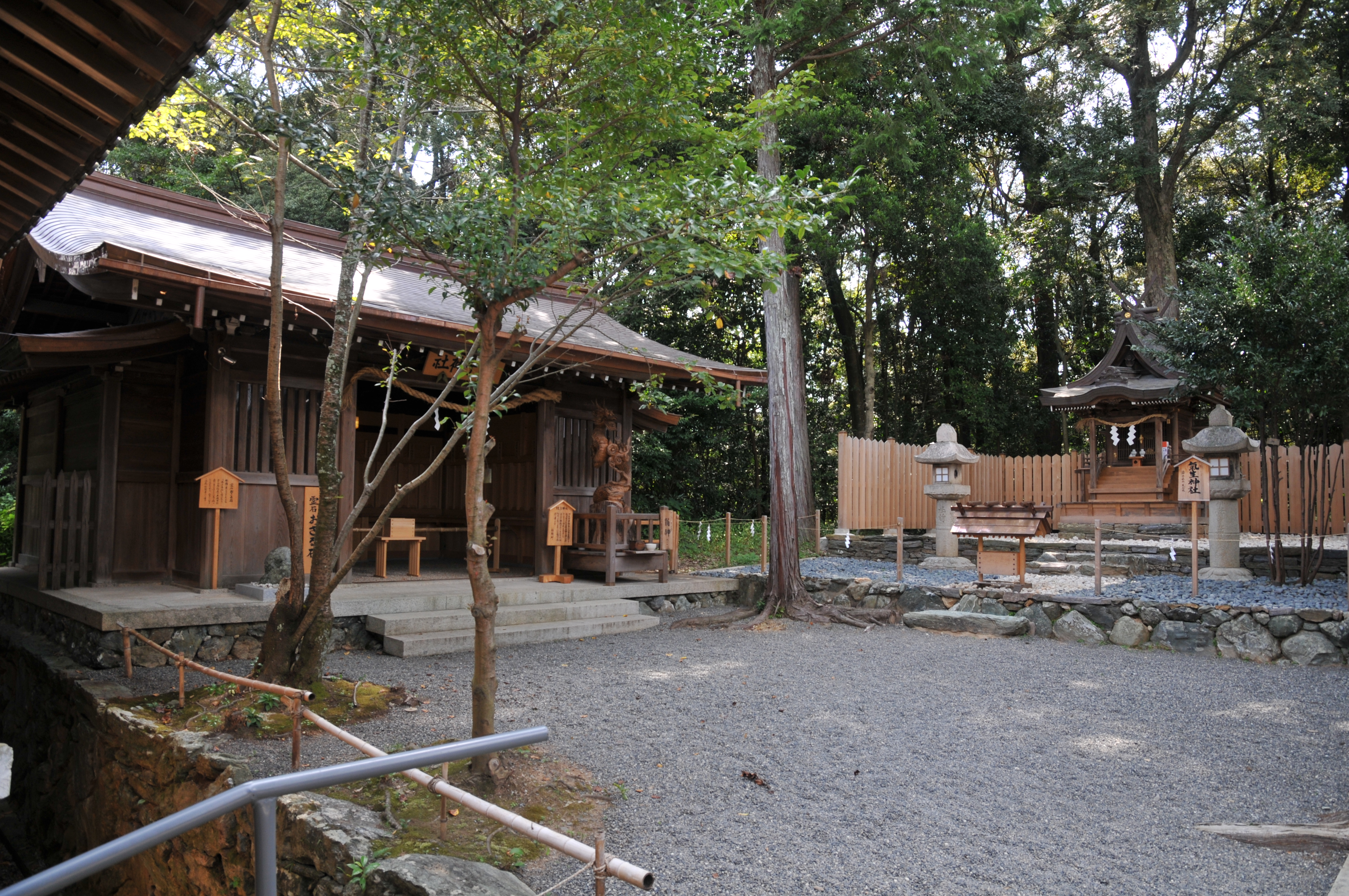 Attached shrines, Itakiso-jinja